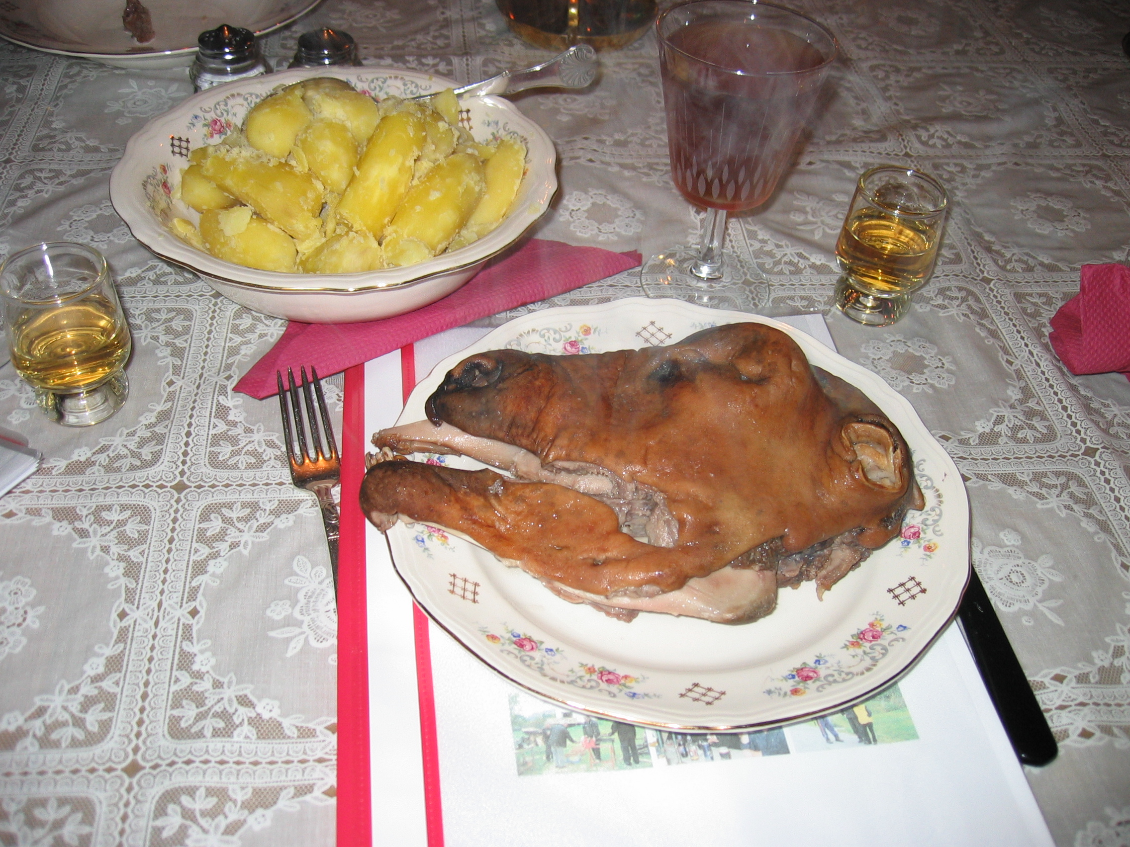 Sheep's head, burned (to remove the hairs), salted, smoked and cooked. A delicacy from Voss, Western Norway.